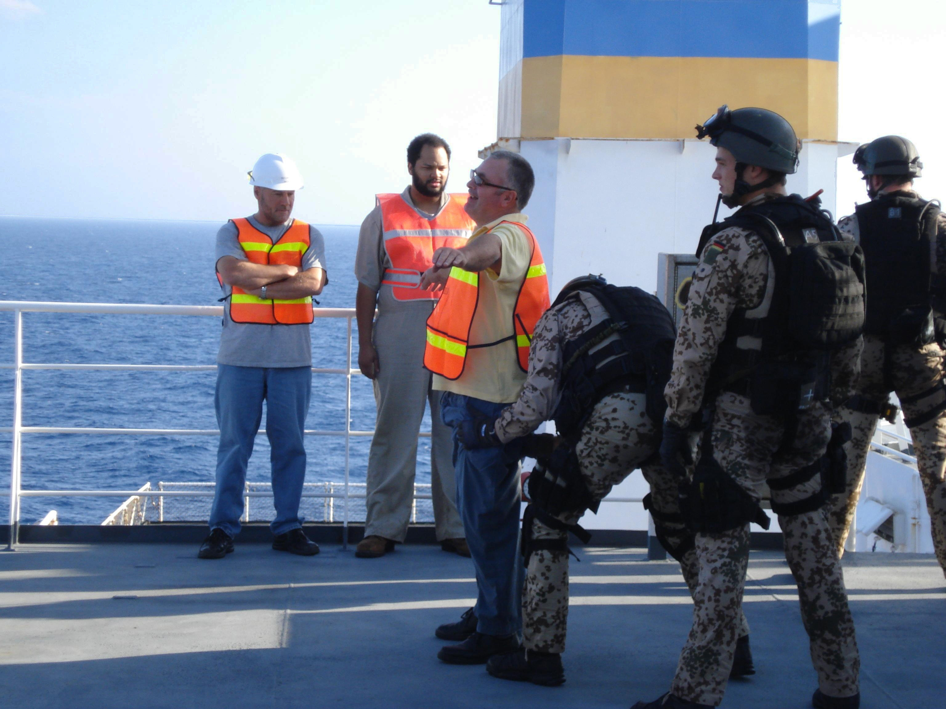 Boardingteam GOLF demonstrates their capabilities during exercise NOBLE MIDAS in Nov 2008